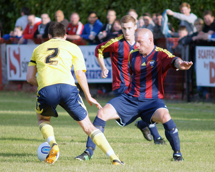 Former ABUFC Defender Dale Seager in a preseason friendly against Bristol City FC in July 2013